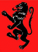 Coats of arms of the Province of Messina